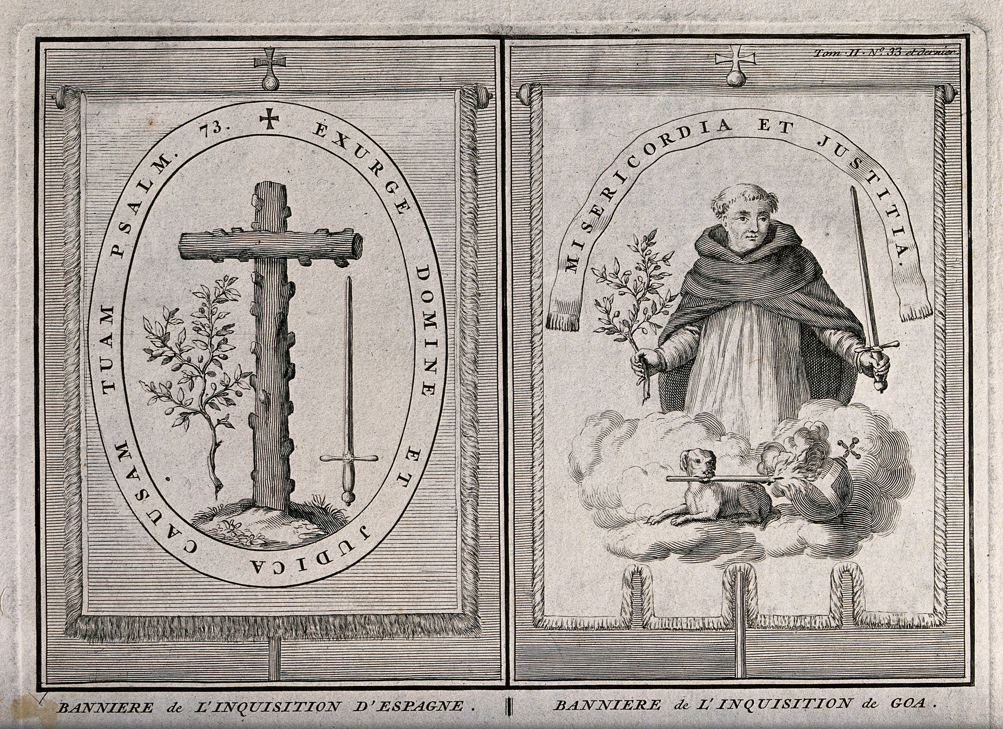 Left, the banner of the Spanish Inquisition; right banner of the Inquisition in Goa. Engraving by B. Picart, 1722. Iconographic Collections Keywords: Bernard Picart